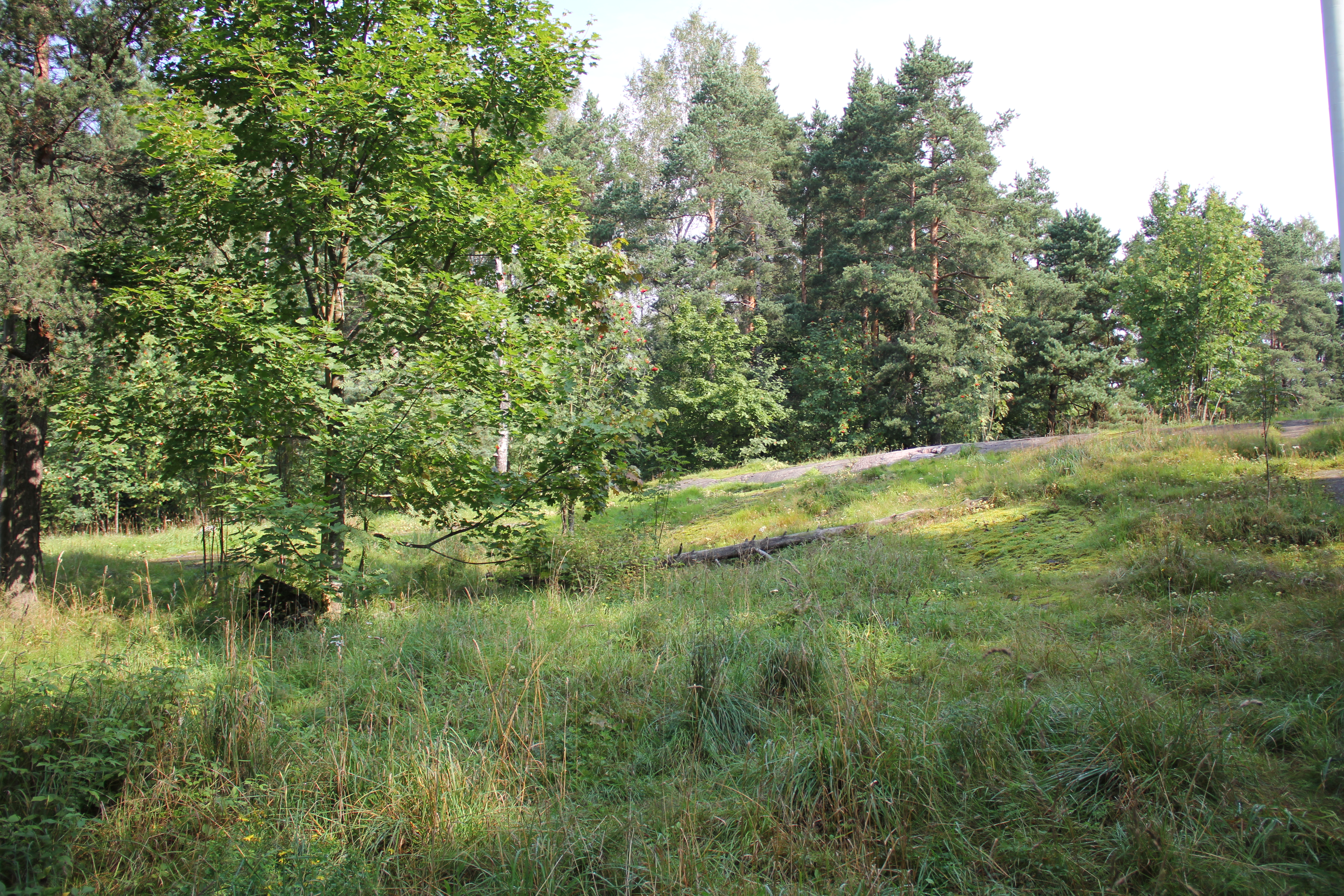 Pakilanpuisto, a park in Länsi-Pakila, Helsinki, Finland.